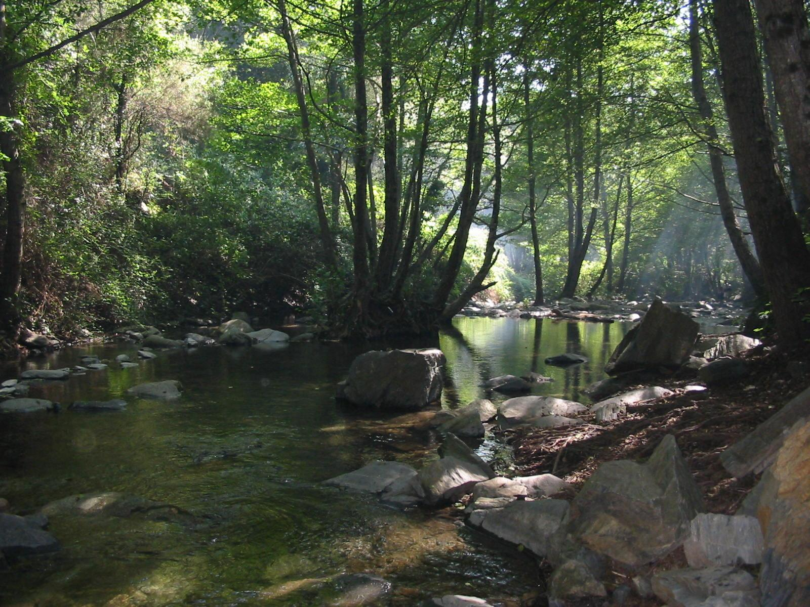 Tordera river at Montseny, Catalonia, Spain.